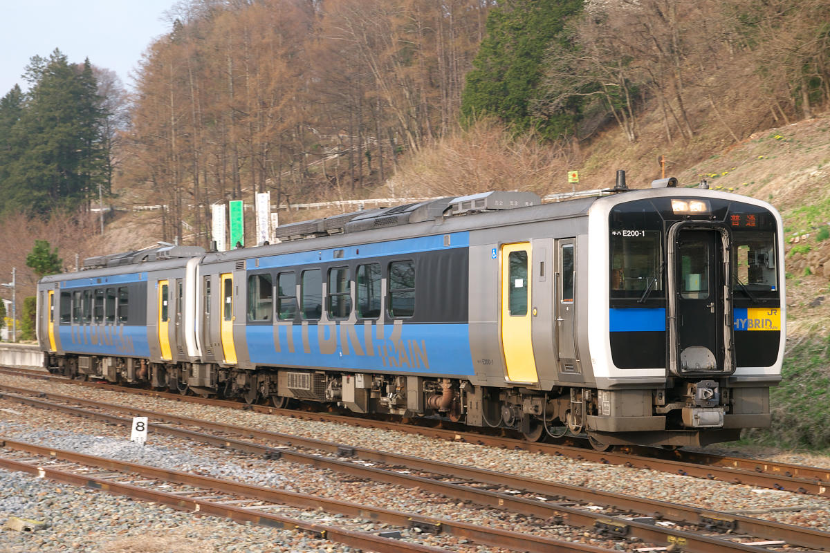 JR East Kiha E200 DMU at Yachiho station